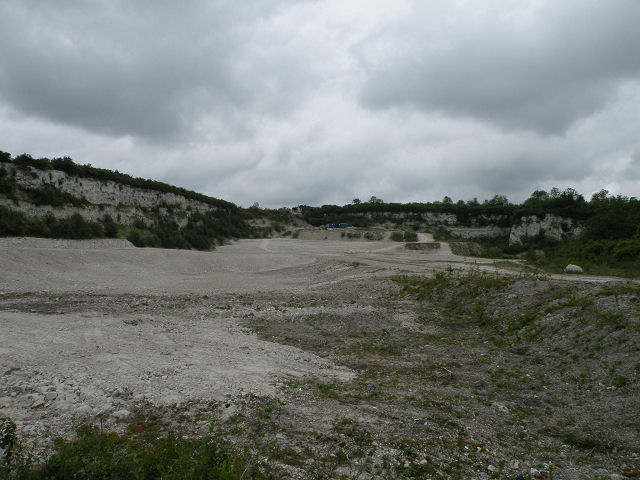 East Pit, June 2009 Cleared ready for opening to the public as a nature reserve. Eventually it will grass over - I wonder how long this will take?